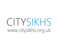 City Sikhs Logo